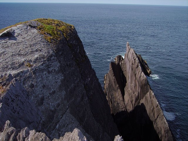 Brow Head One of many scary Irish headlands. This is one of the three ends to the Mizzen Head peninsula. A narrow ridge of slate.